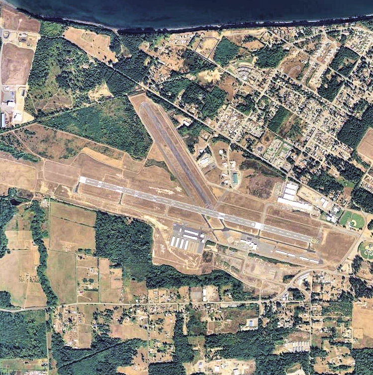 USGS digital orthophoto of William R. Fairchild International Airport in the U.S. state of Washington